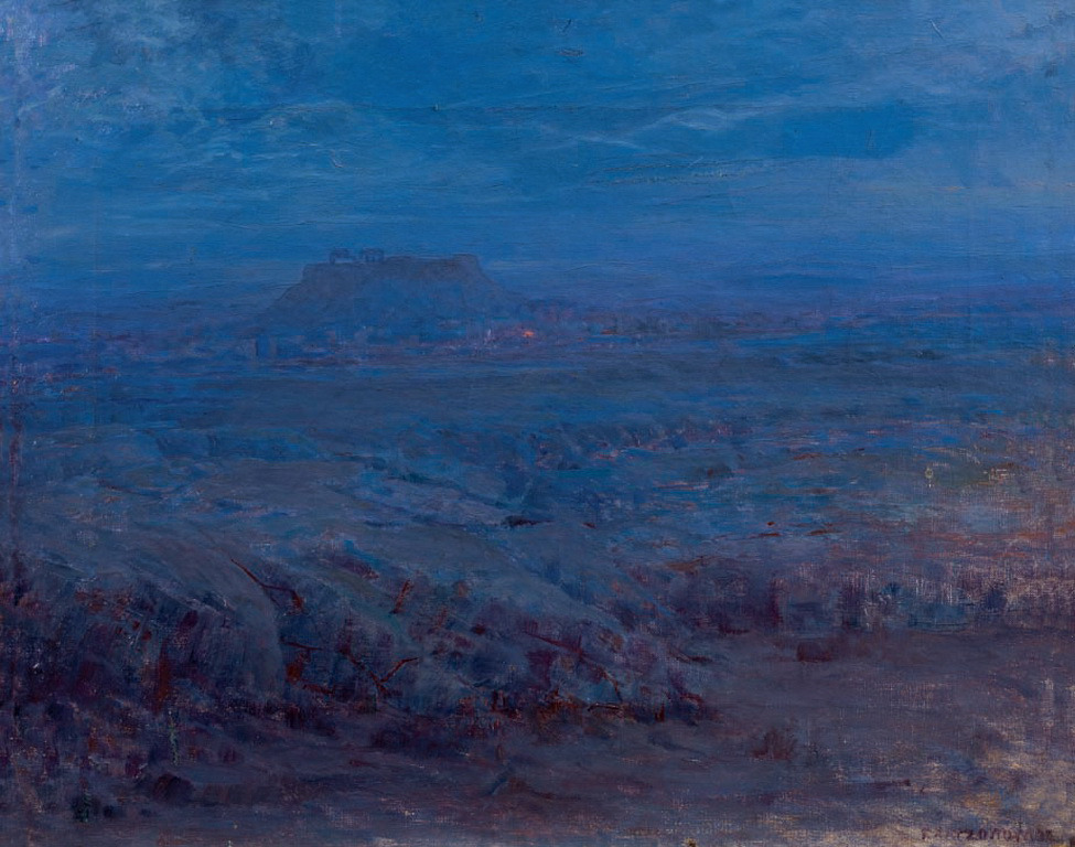 Night view of Athens